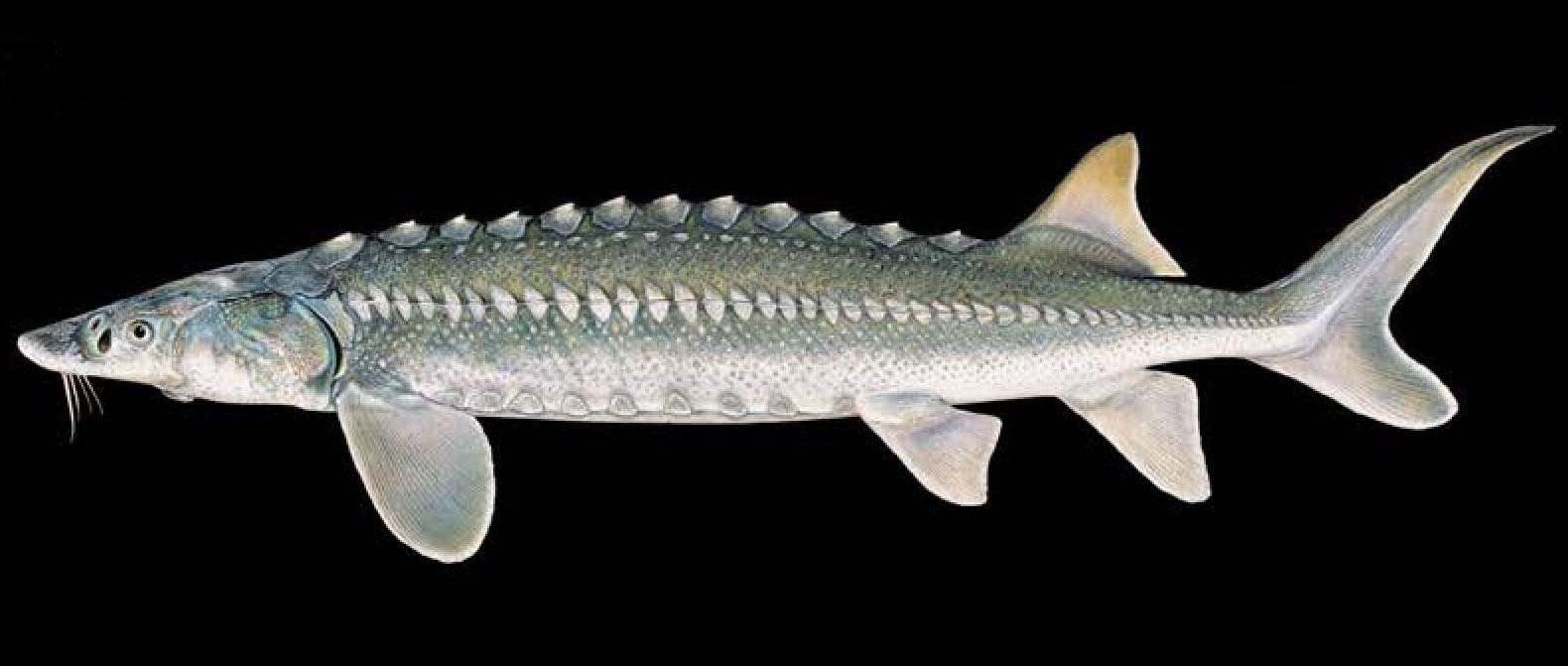 White Sturgeon - Acipenser tranmontanus image by Joseph R. Tomelleri